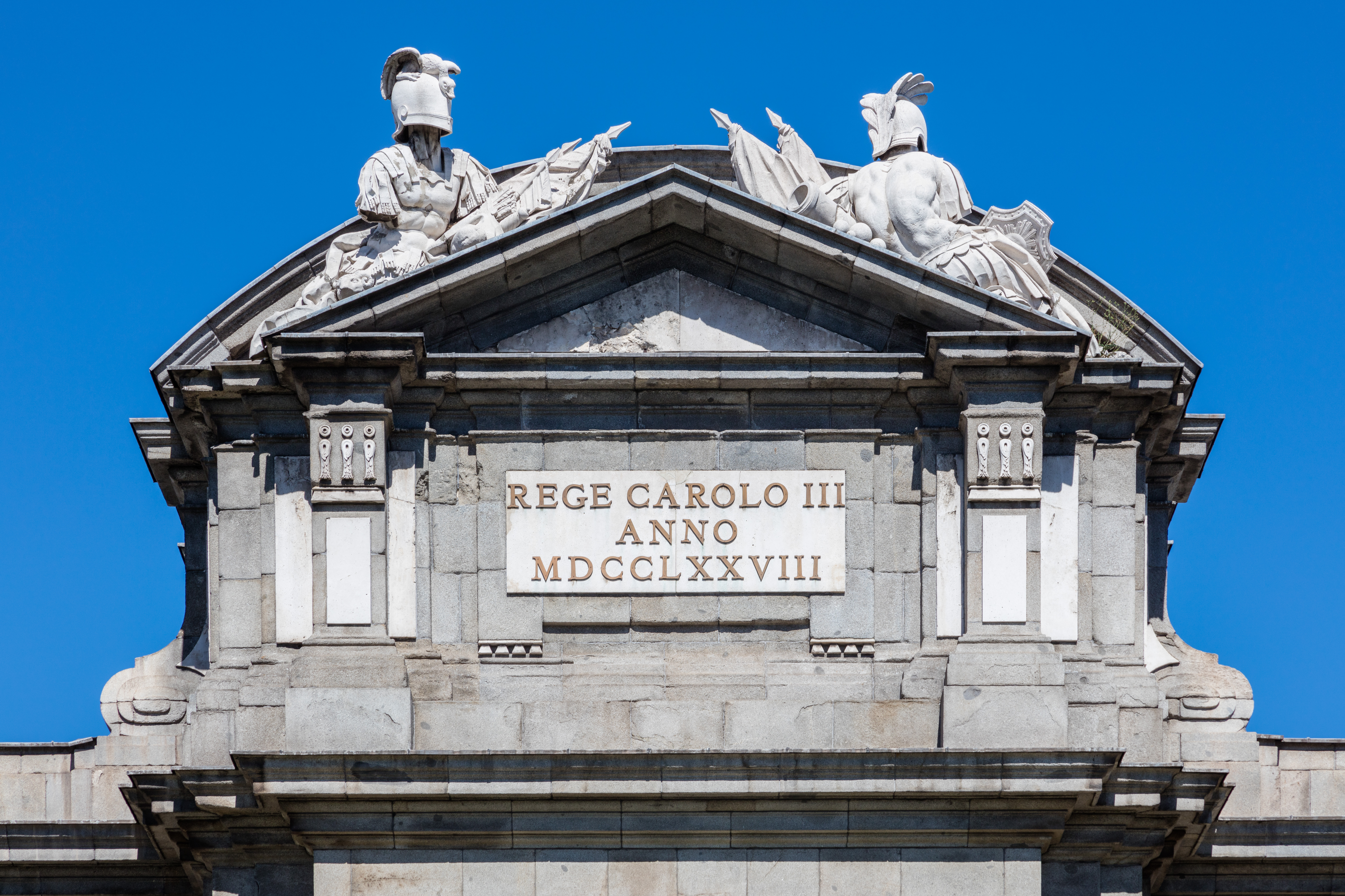 Alcalá Gate, Madrid, Spain